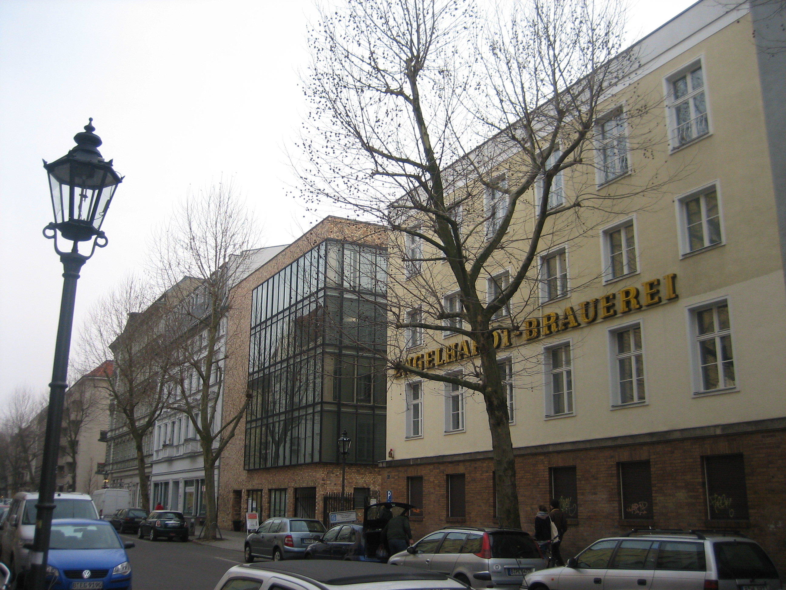 Old Engelhardt Brewerie , Berlin Charlottenburg.